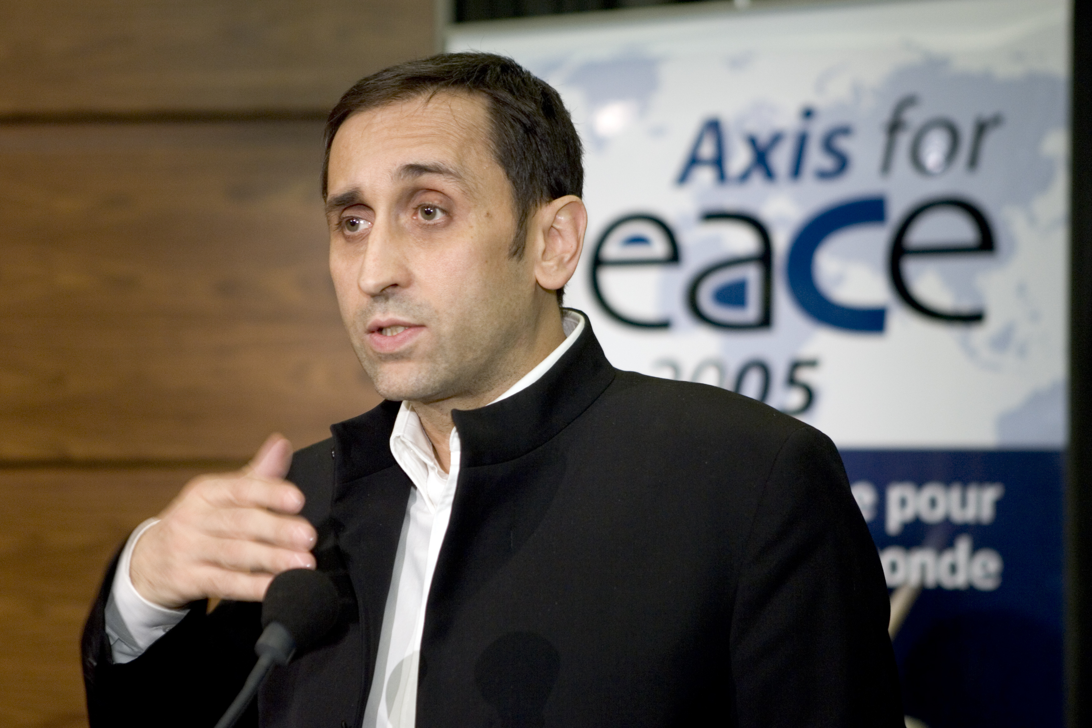 French journalist Thierry Meyssan at the 2005 Axis for Peace conference.